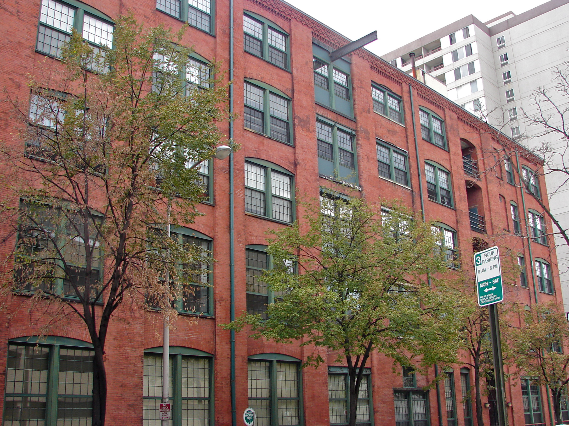 Harrington Machine Shop on the NRHP since May 6, 1983. At 1640–1666 Callowhill St. in the Franklintown neighborhood of North Philadelphia. Right next to the INS building at 1600 Callowhill, which is also on the NRHP